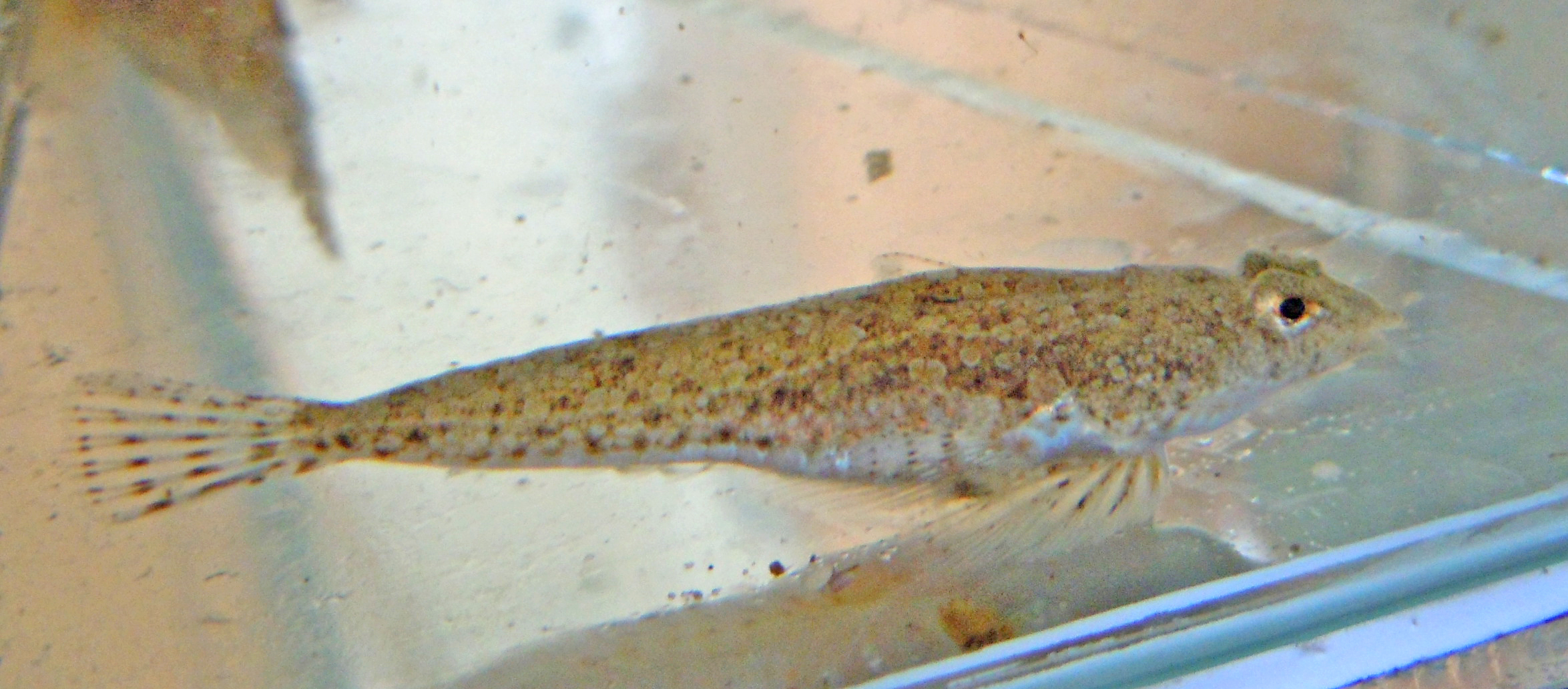 Risso’s dragonet (Callionymus risso) from the Gulf of Odessa, Ukraine